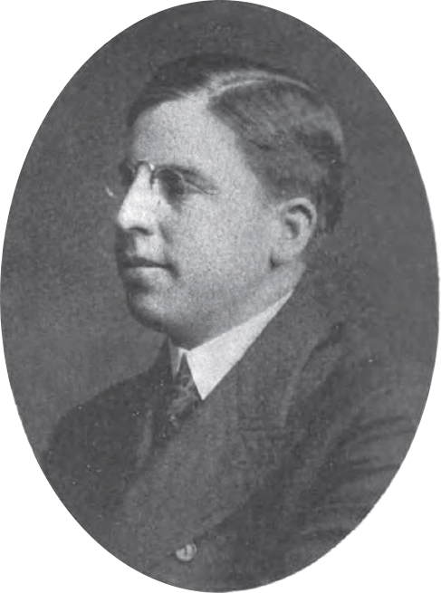 Ohio politician named J. Eugene Harding